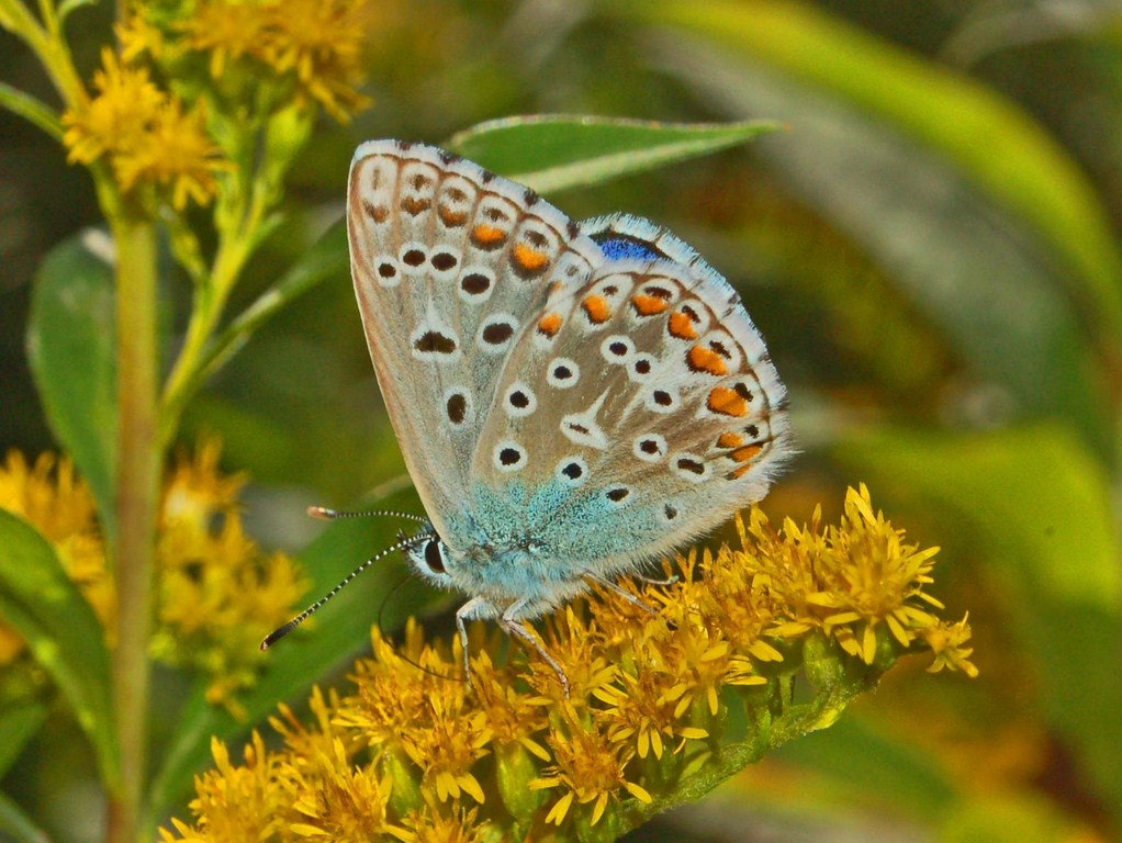 Lycaenidae - Polyommatus bellargus